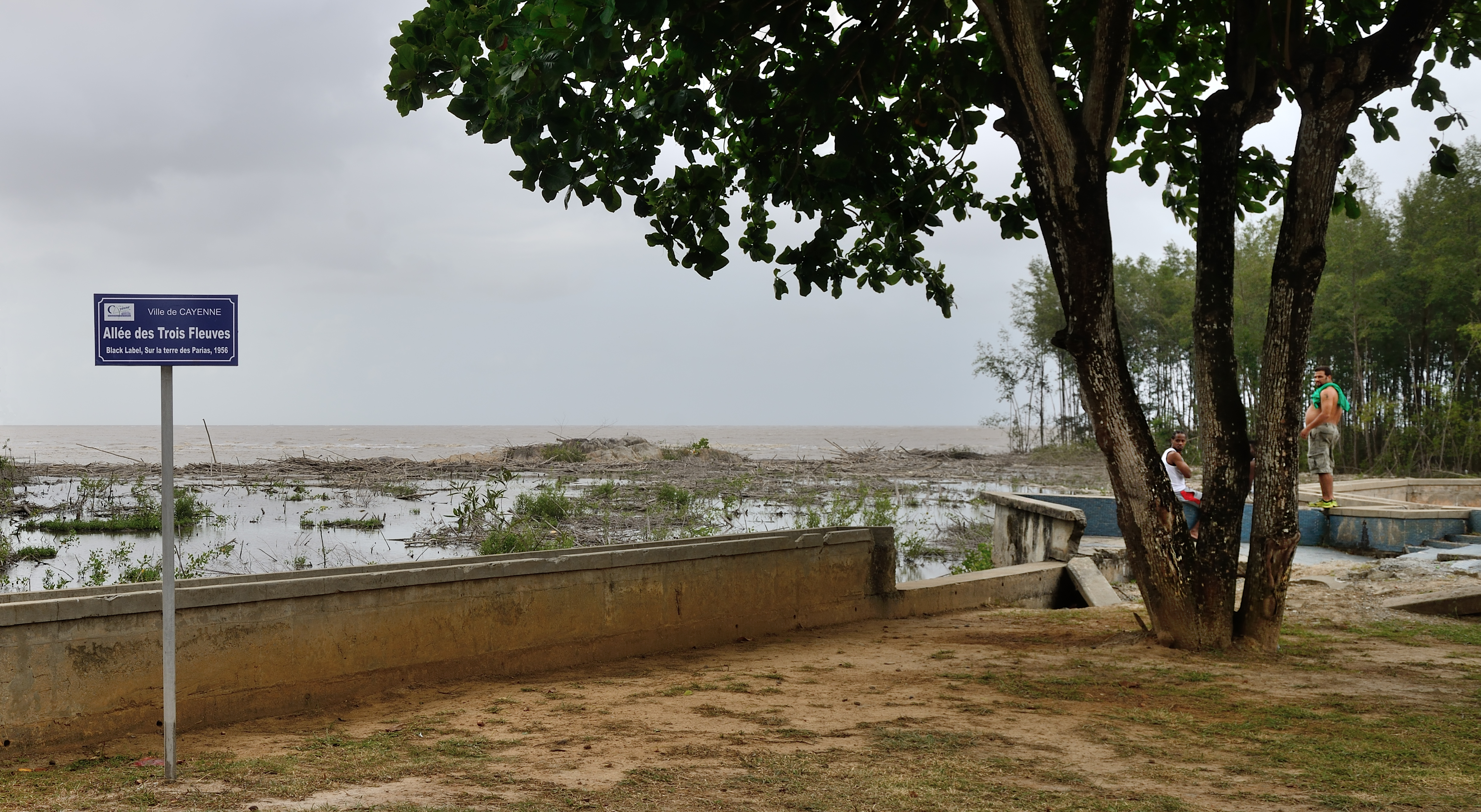 Allée des trois fleuves in Cayenne, French Guiana. The name refers to the poem Black Label of 1956 by Léon-Gontran Damas, born in Cayenne (1912) and deceased in Washington D.C. (1978).